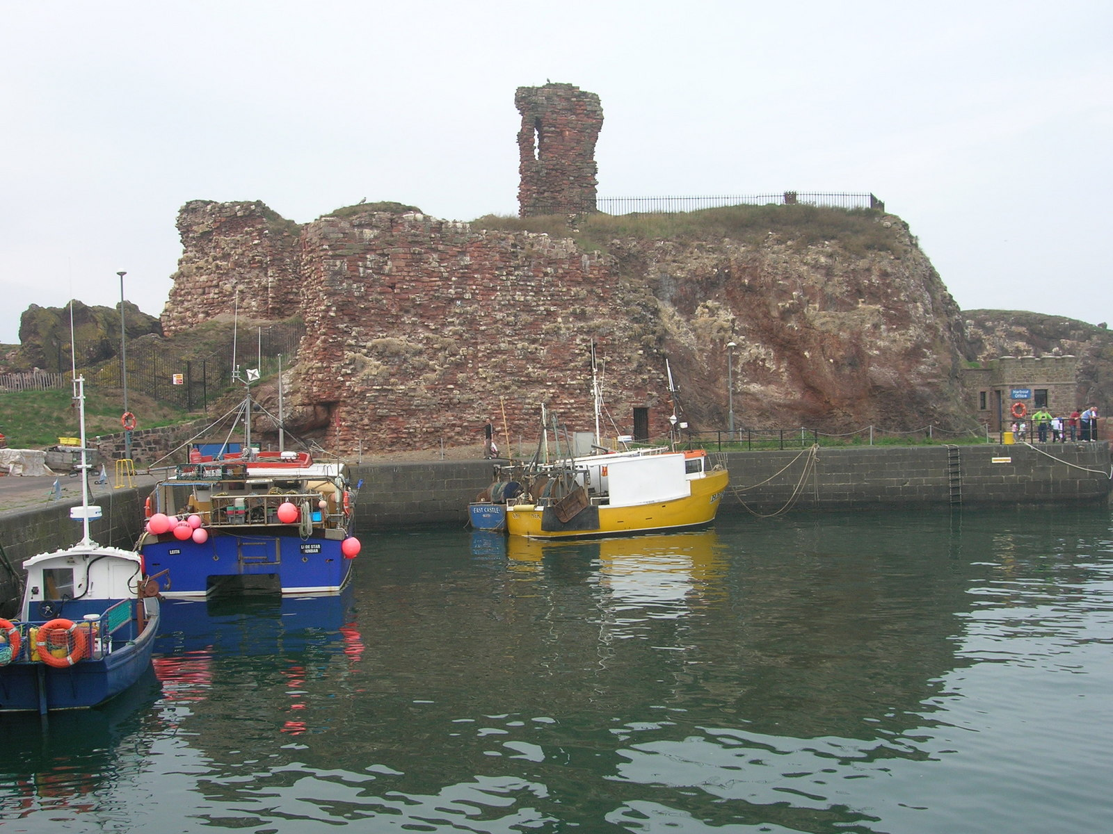 Dunbar Castle Dunbar Castle is the remains of one of the most mighty fortresses in Scotland, situated over the harbour of the town of Dunbar